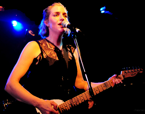 Sally Seltmann performing at Rosemount Hotel, Perth, Western Australia on 17 July 2010. Photo taken by Stuart Sevastos (stusev) and uploaded to Flickr at Sally Seltmann @ Rosemount Hotel (17/7/2010) on 25 July 2010. It was cropped and identifying watermark was obscured by wikimedia uploader.